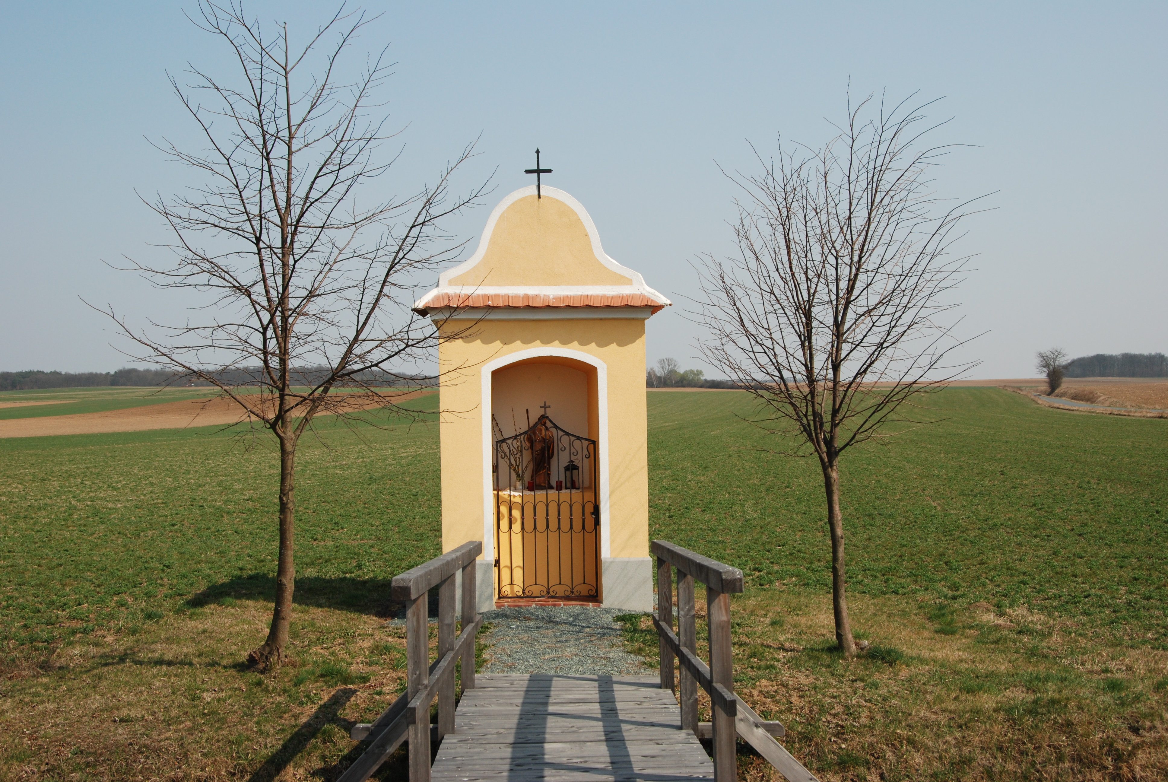 Wegkapelle Bildein